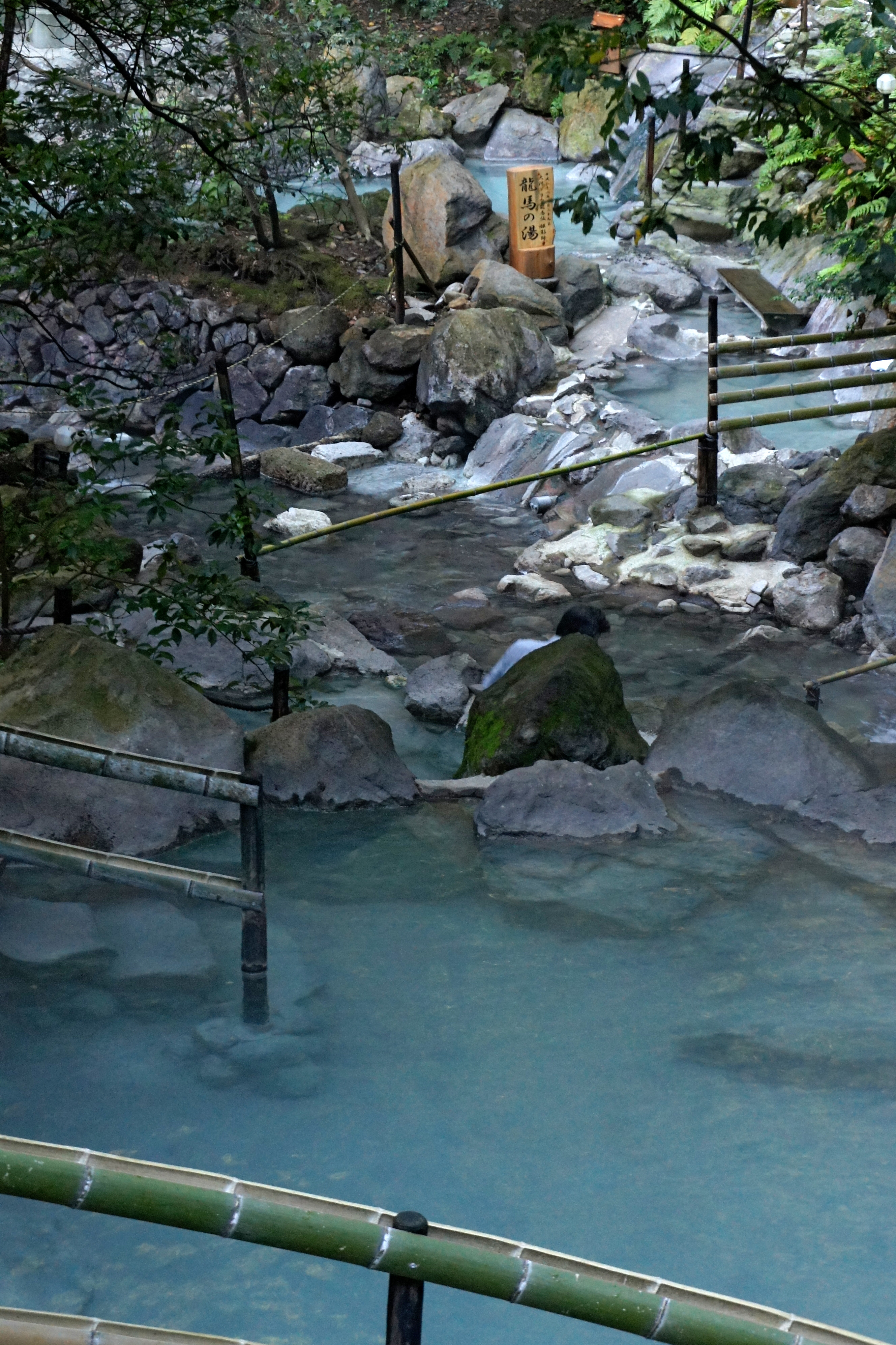 Ryokukeitouen of Eino-o Onsen in Kirishima, Kagoshima prefecture, Japan.